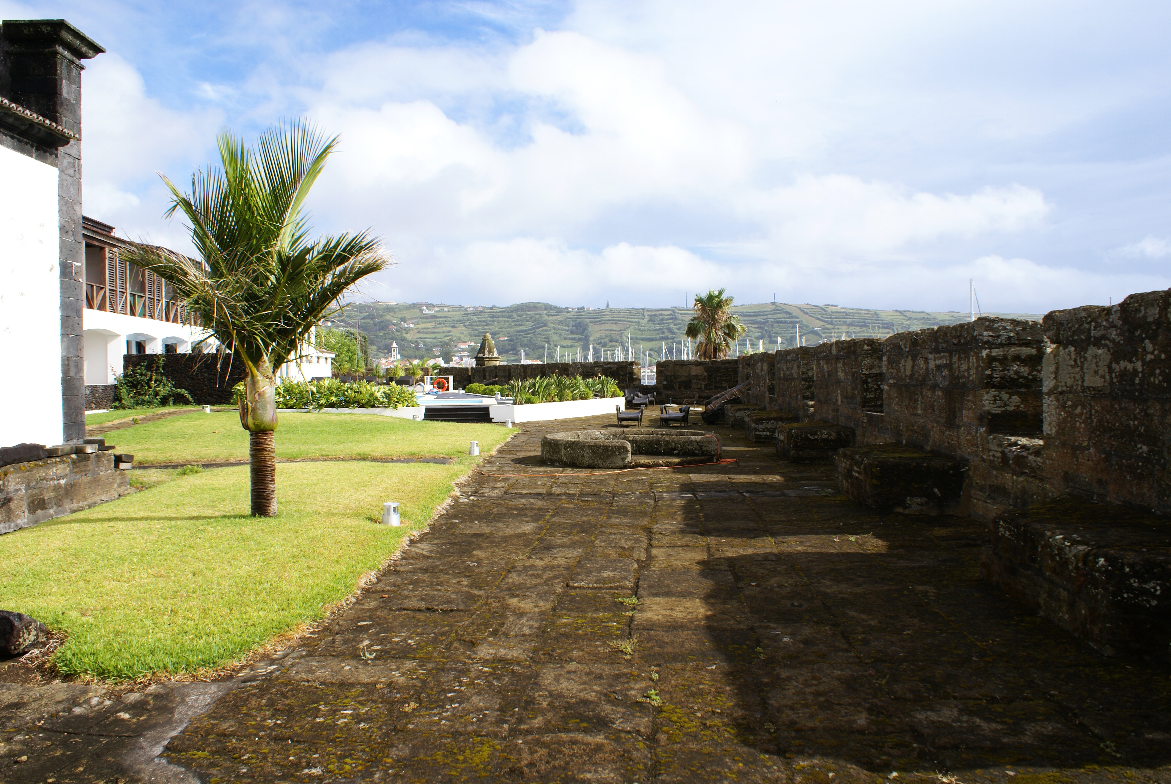 The gardens and wall of the Fort of Santa Cruz, Horta, Faial (Azores), Portugal